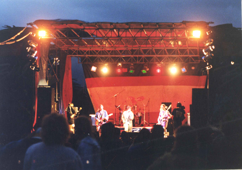 MountainRock10 - photo taken and uploaded by Paul Moss, Photographer, Artist, Paul Moss Photographer Artist NZ